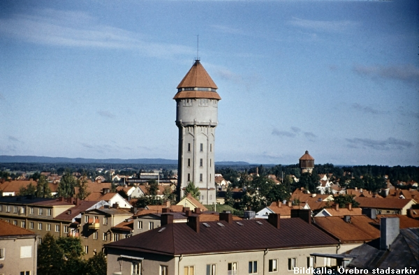 The North Water Tower in Örebro, Sweden